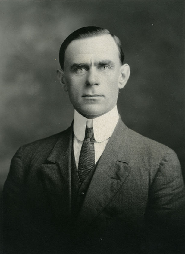 A portrait of William Fedun of Andrew, who served as UFA MLA for the Victoria electoral district from 1921 to 1926. source of title: inscription on reverse To see more historic UFA materials, visit the United Farmers Historical Society at .